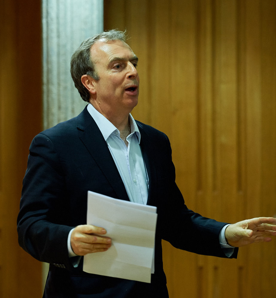 Picture of Peter Hitchens at debate on Eastern Europe held at Sidney Sussex College, Cambridge, England